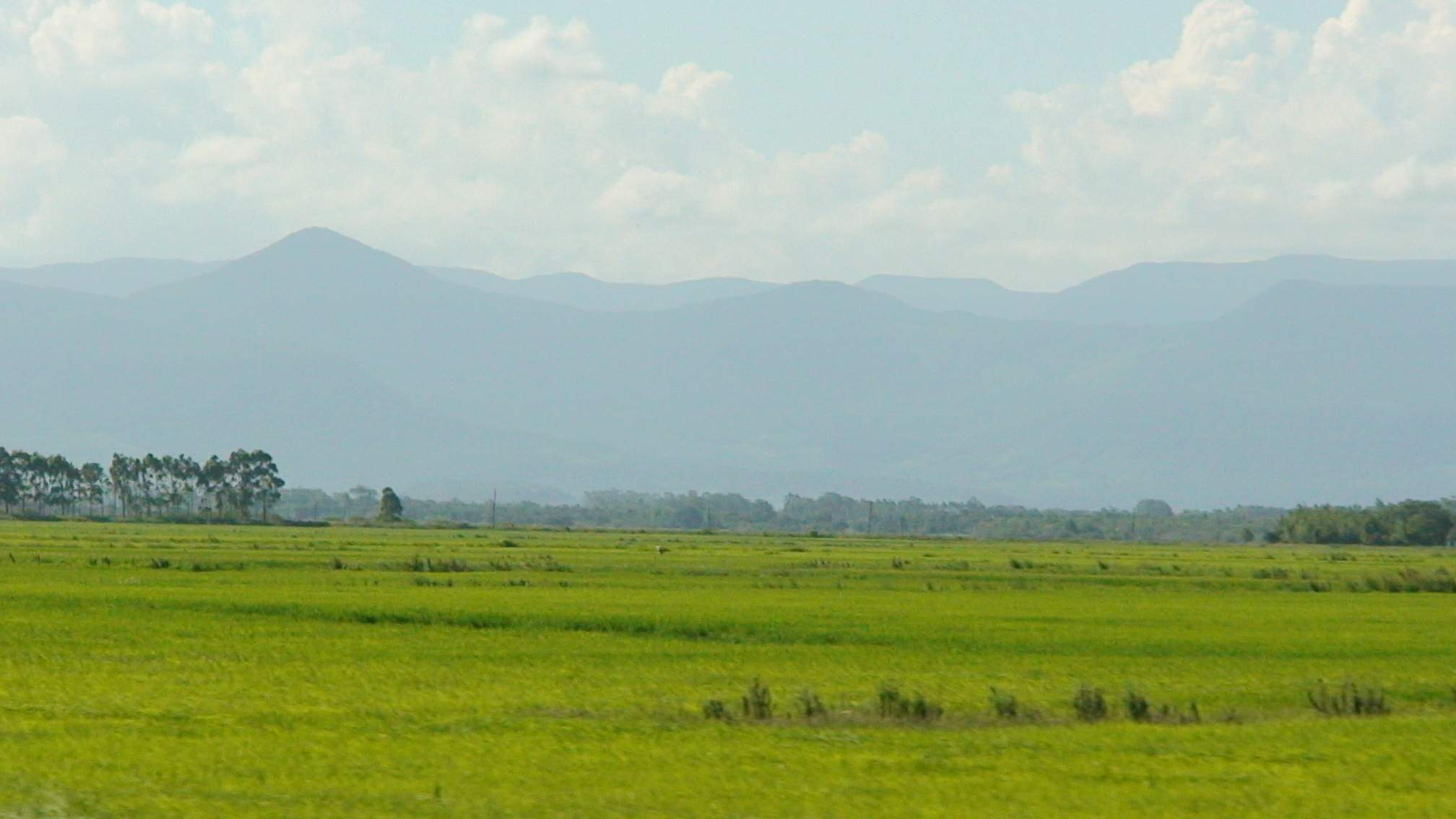 Pampa grasslands in Serra Geral, Rio Grande do Sul, Brazil.